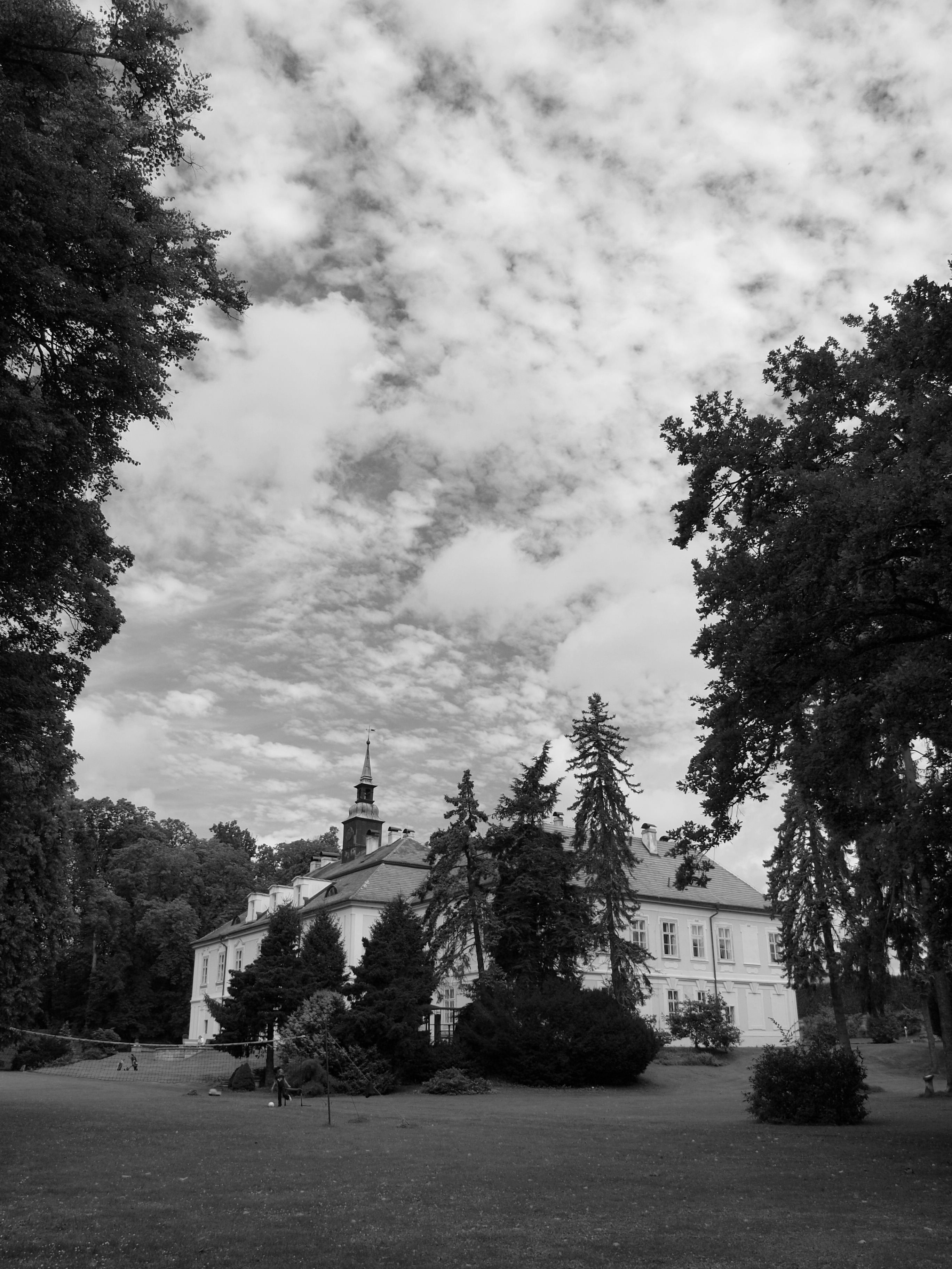 Nový Berštejn